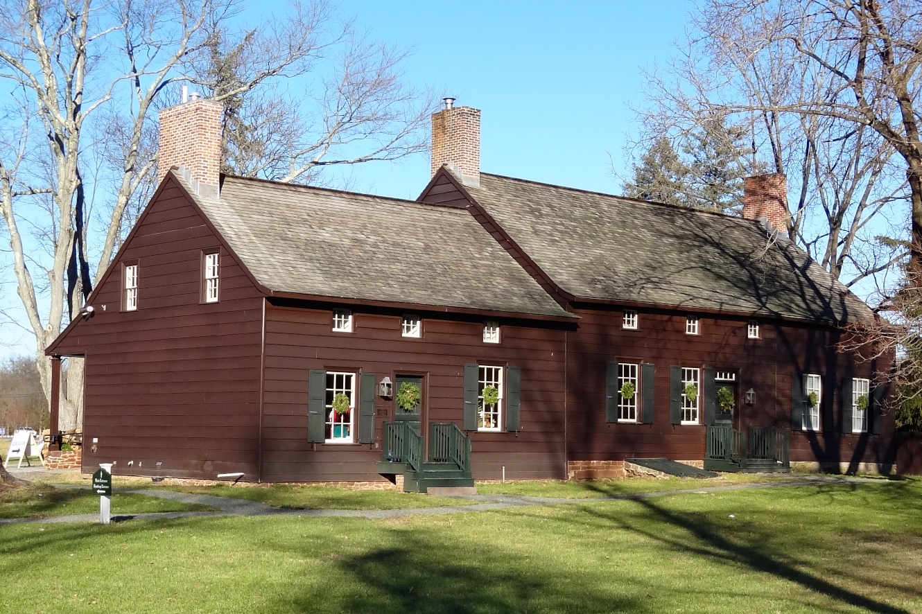 Jacobus Vanderveer House 3055 River Road Park Bedminster, New Jersey